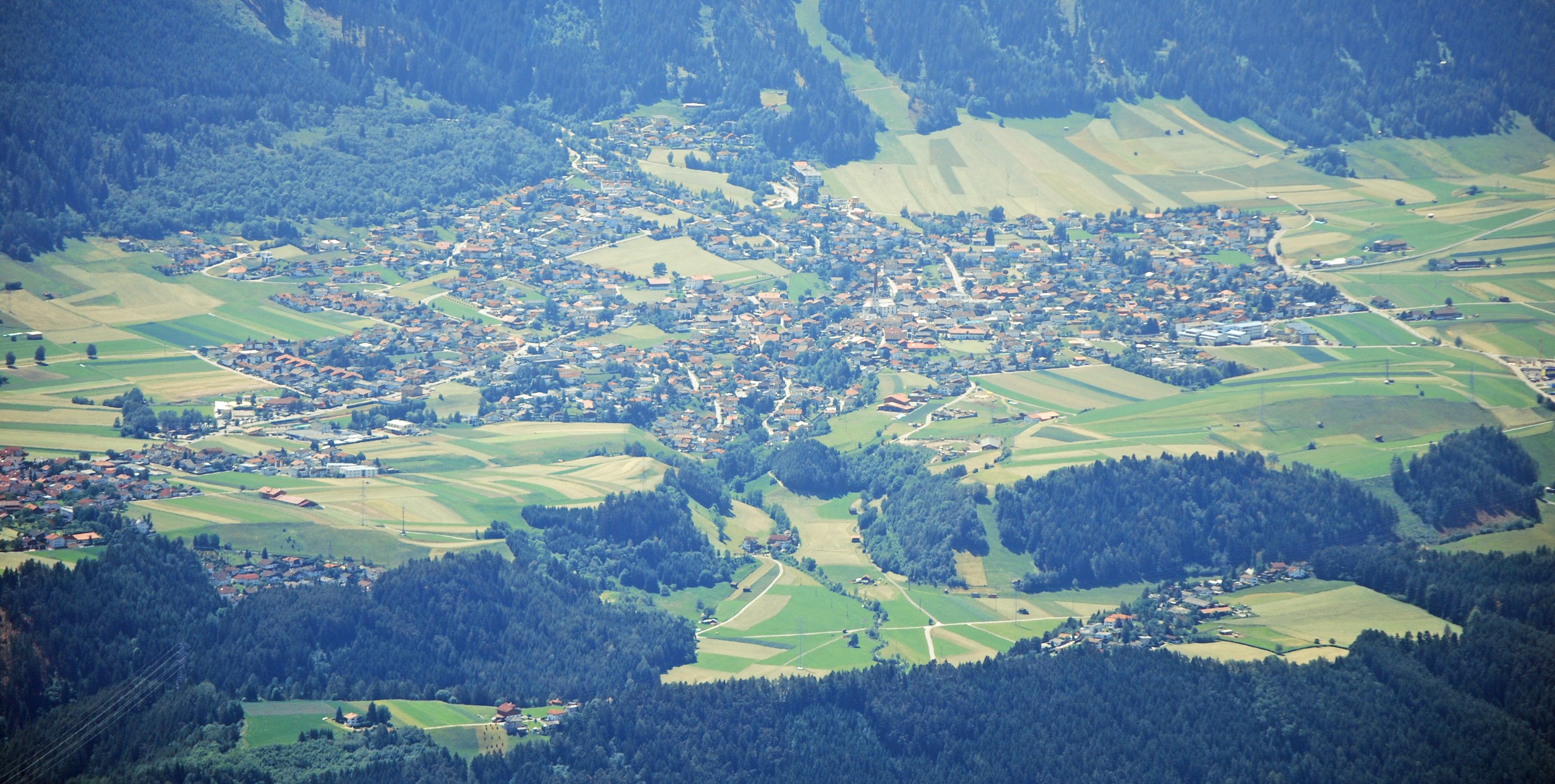 Axams from NE